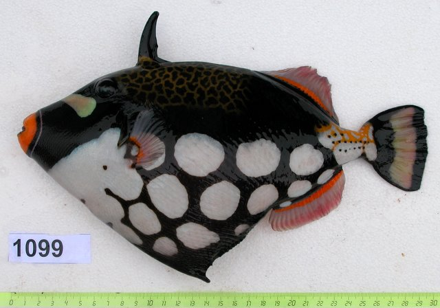 Balistoides conspicillum from off New Caledonia. Locality: Near Récif To, Off Nouméa, New Caledonia. Fork Length 280 mm, Weight 666 grams. Date 2005/05/10